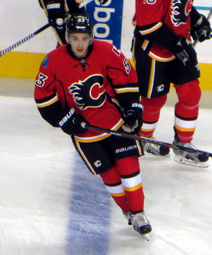 Calgary Flames forward Johnny Gaudreau prior to a National Hockey League pre-season game against Winnipeg.